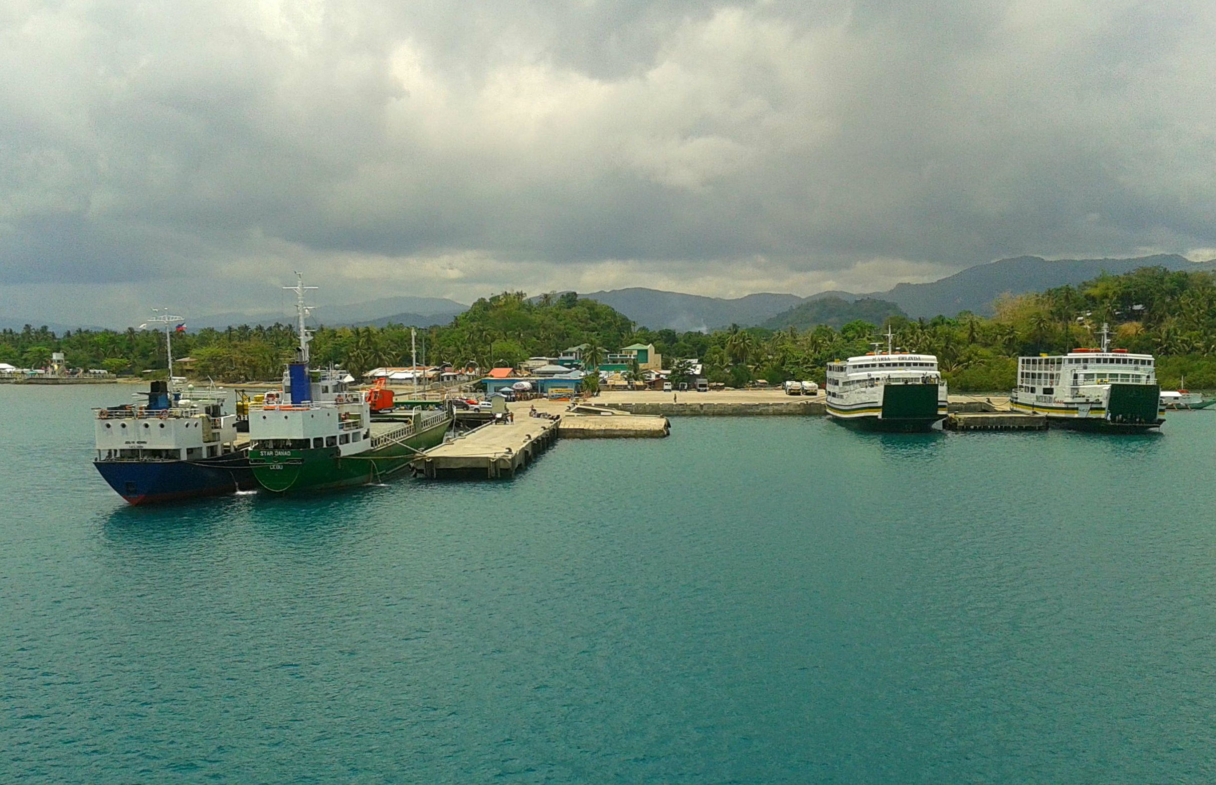 A photo of Poctoy Pier taken on 2014